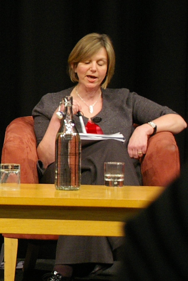 Lilian Greenwood, Labour MP for Nottingham South, during a pre-election debate at the East Midlands Conference Centre.